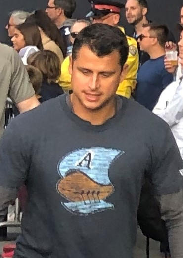 Zach Collaros, quarterback for the Toronto Argonauts.